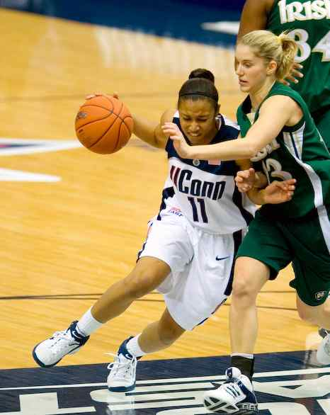 Ketia Swanier versus Notre Dame 3-6-2006